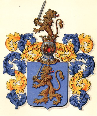 Coat of arms of the Leth family